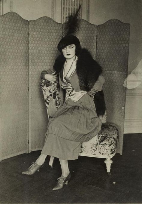 Public Image kept at Harrods Retail Archives, Buenos Aires, Argentina